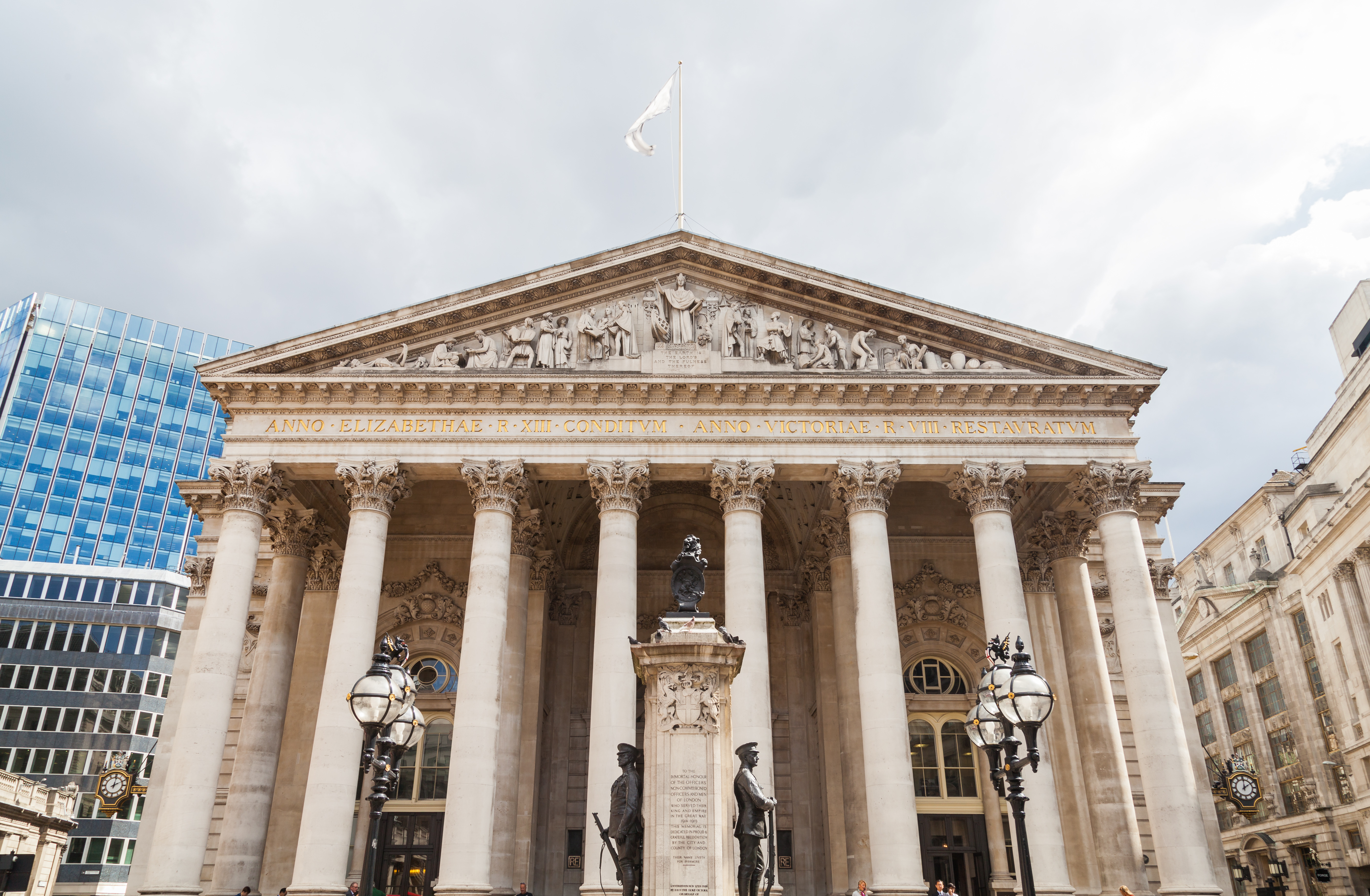 Stock exchange, London, England